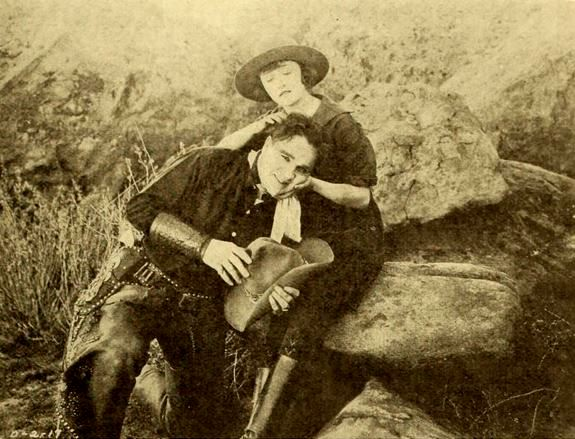 Still from the American western film The Prodigal Liar (1919) with William Desmond and Betty Compson, on page 1231 of the March 1, 1919 Moving Picture World.